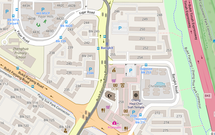 Bangkit LRT station (BP9) station map